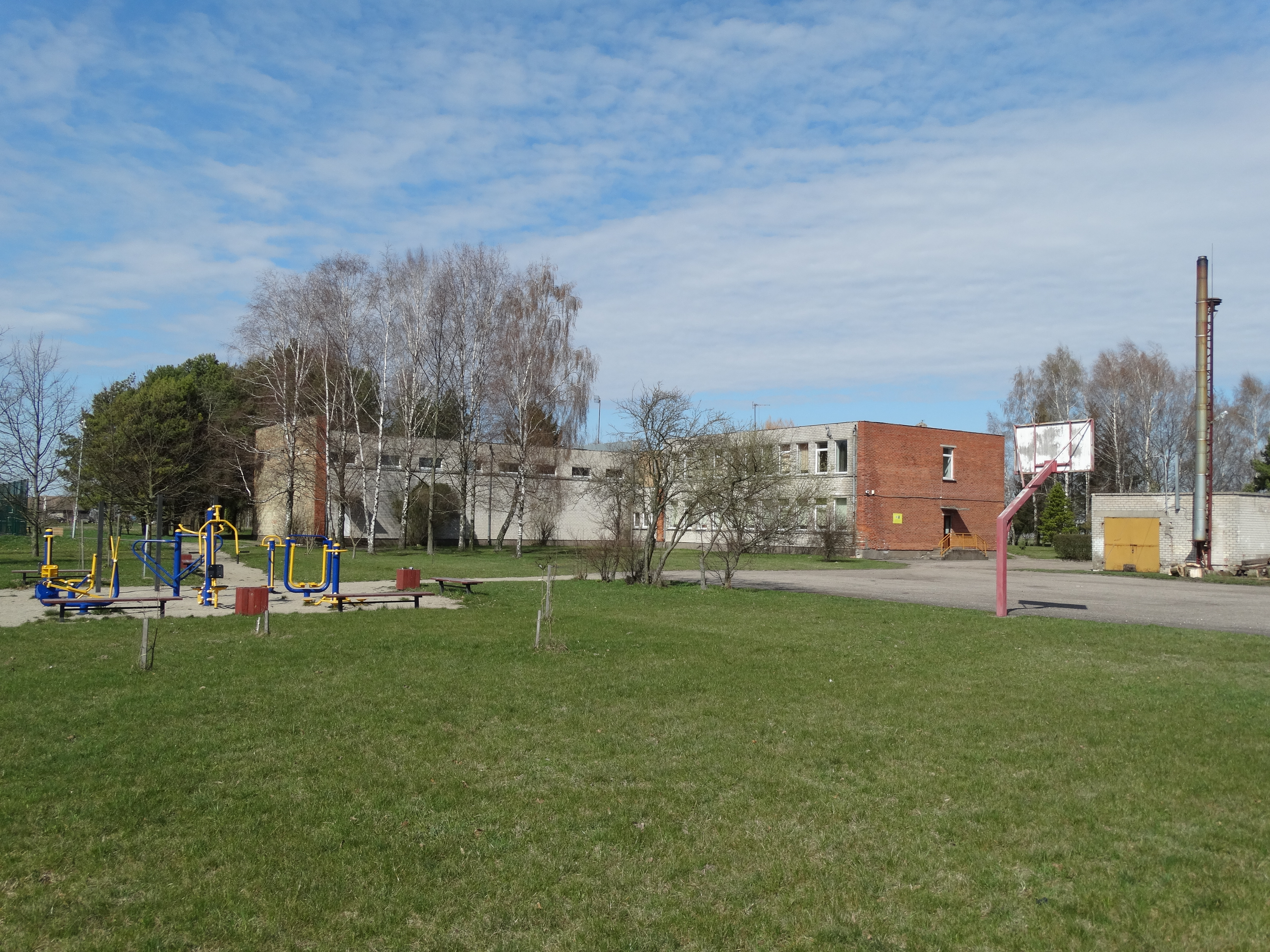 Basic school, Aristava, Kėdainiai district, Lithuania